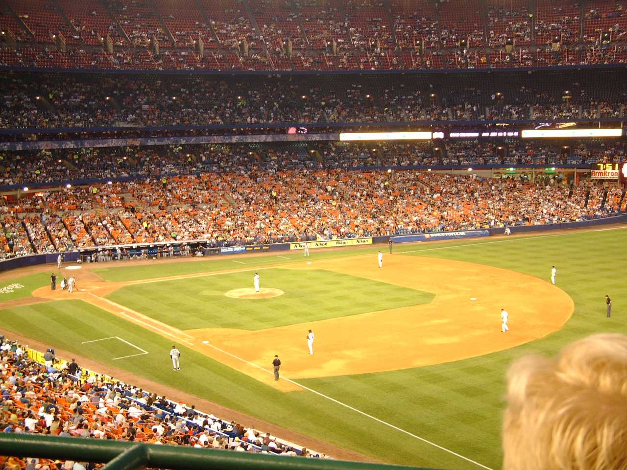 Shea Stadium